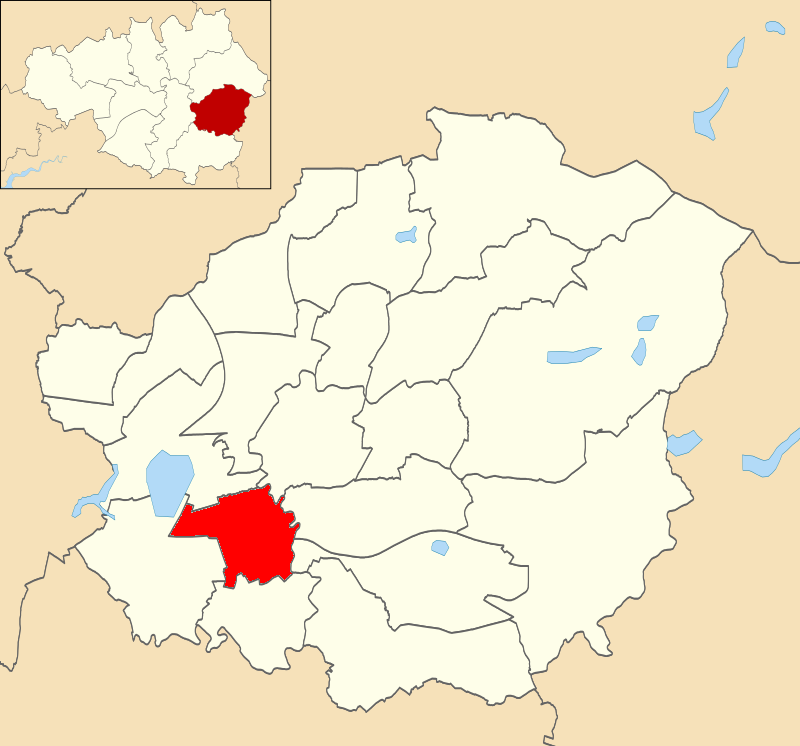 Map showing location of Denton North East Ward within Tameside Metropolitan Borough Council.